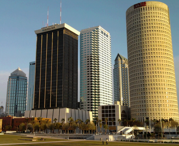 Downtown Tampa from Curtis Hixon Park